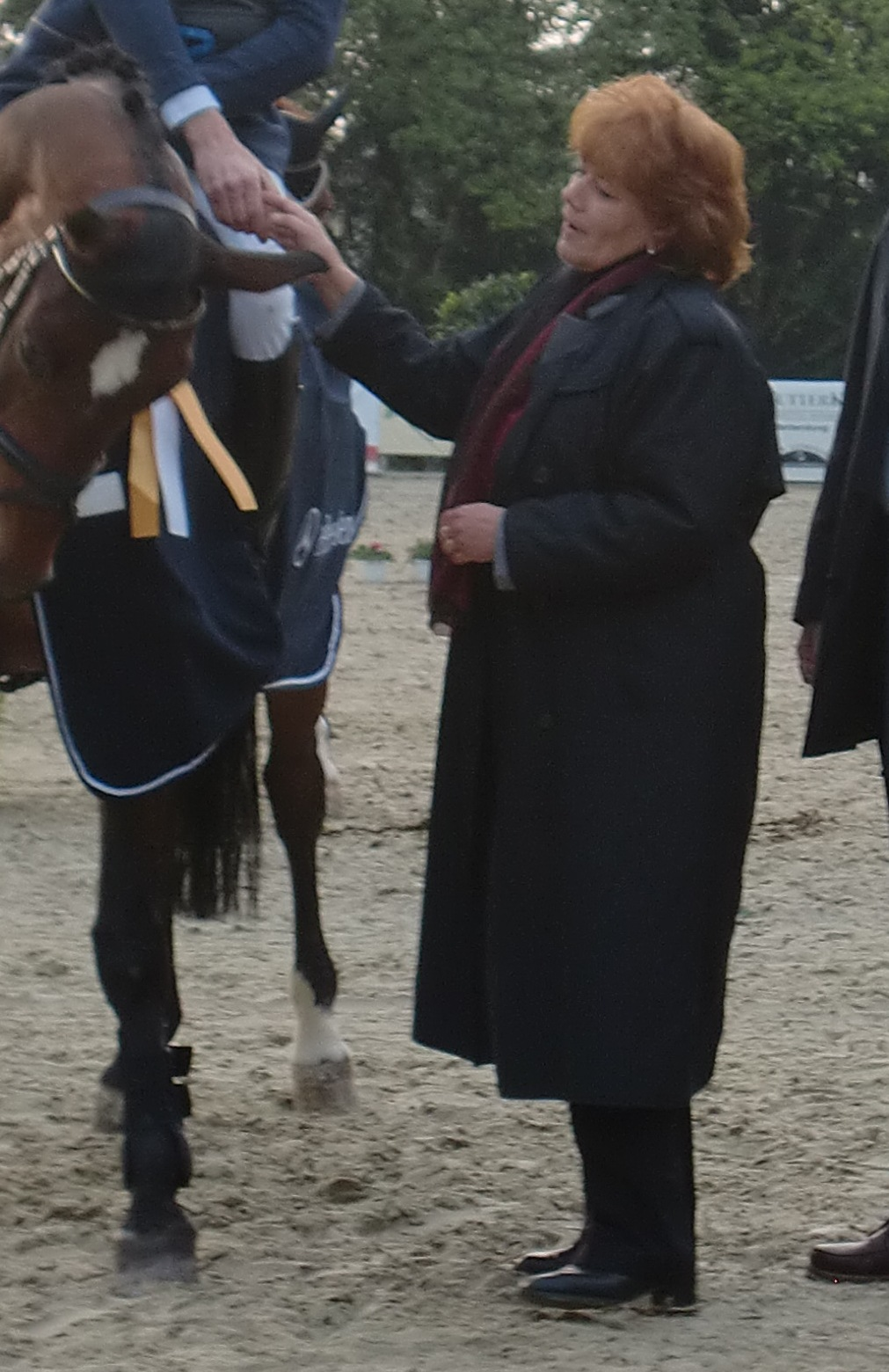 Beate Wilding, Mayor of Remscheid, congratulates the winner of the show jumping Grand Prix of the "Remscheider Reitertage" as the patroness of the event.